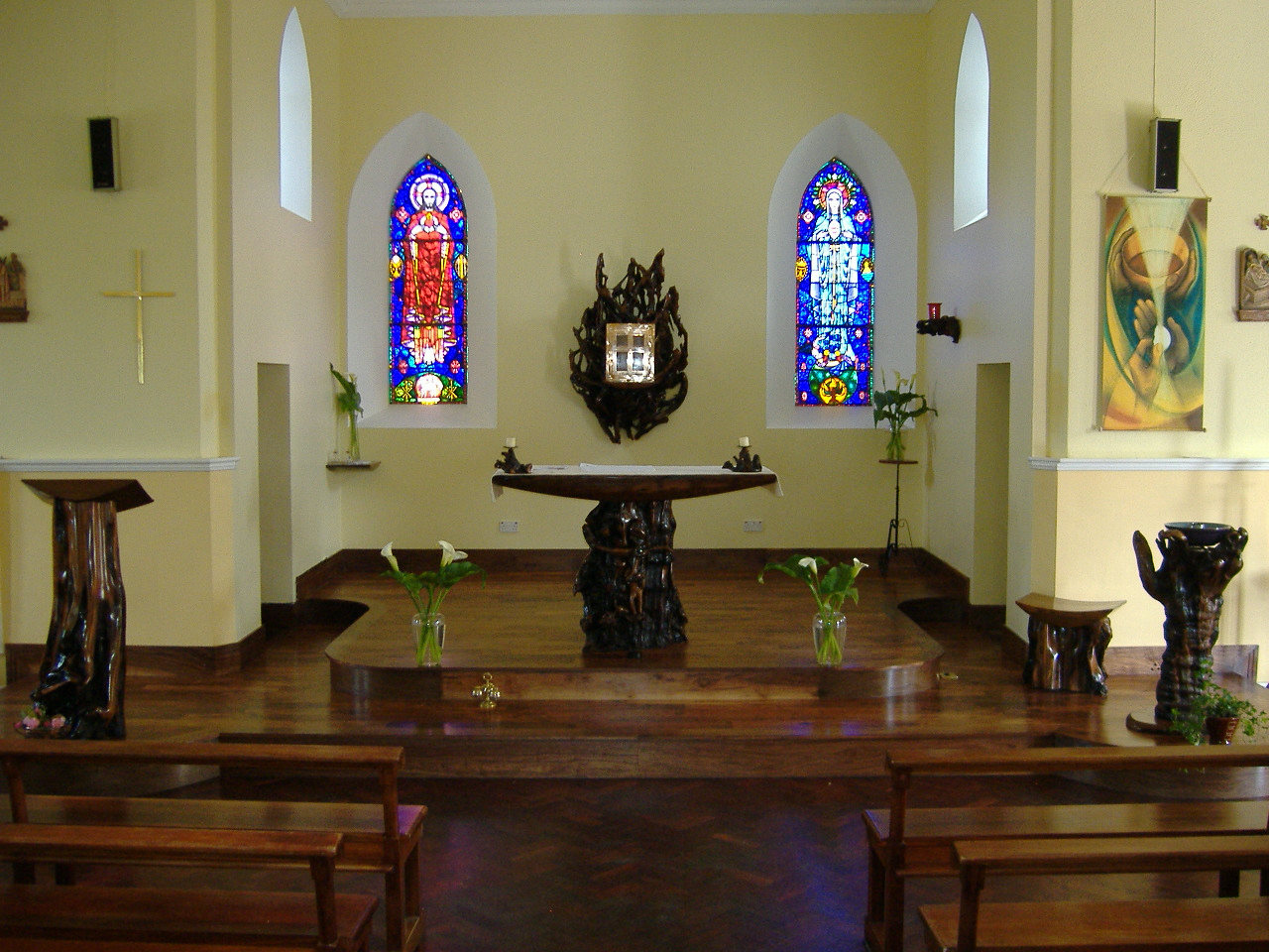 St Mary's Church, Pollagh: View from in front of altar on ground level, with stained glass windows of the Harry Clarke Studios (but not by Harry Clarke himself) in background.